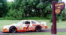 The Alan Kulwicki Ford Thunderbird that he used to win the 1992 NASCAR championship displayed at Alan Kulwicki County Park. This is the original car. Larry gave Creative Commons licensing as indicated on the caption at the original source.